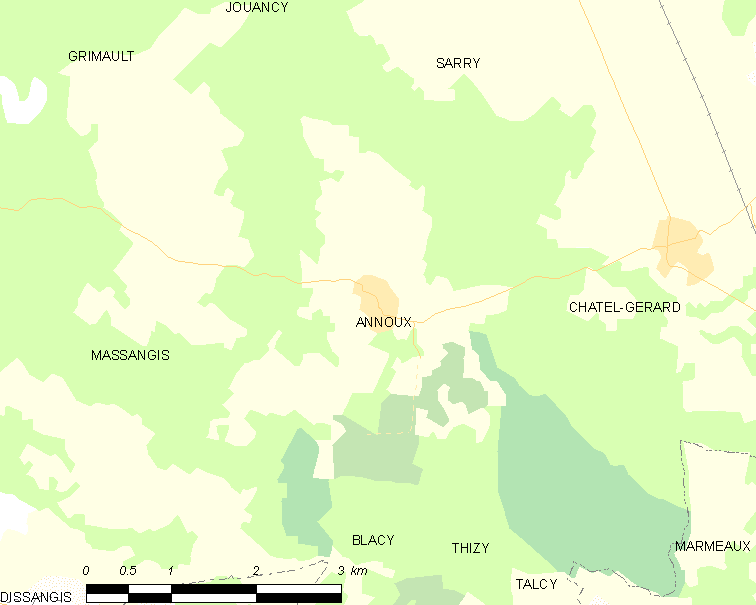 Map of French municipality Annoux